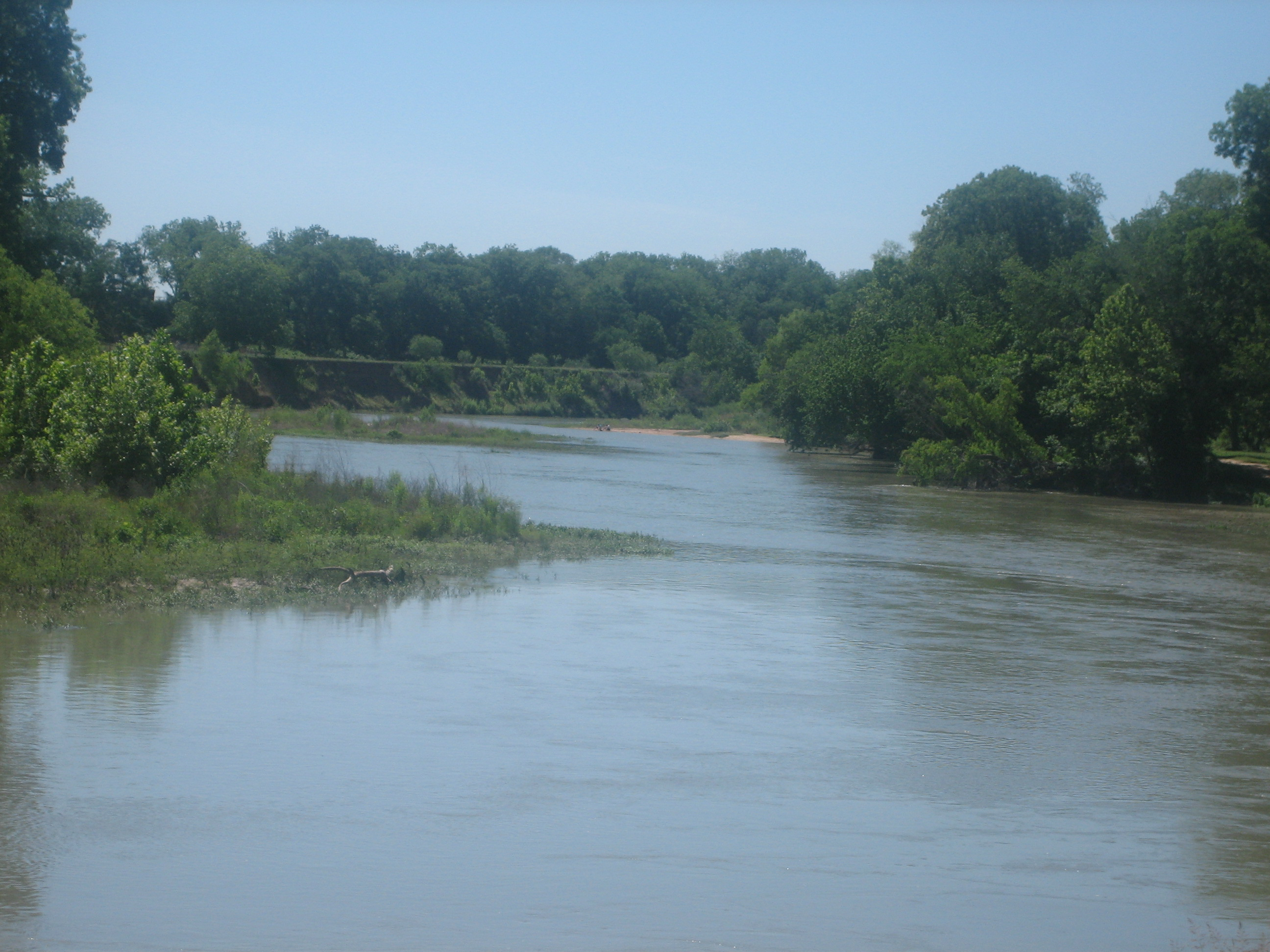 I took photo on May 21, 2009.Billy Hathorn (talk) 02:11, 31 May 2009 (UTC)